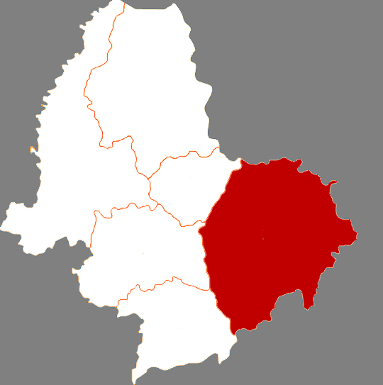 Location of Xunke County in Heihe City, China